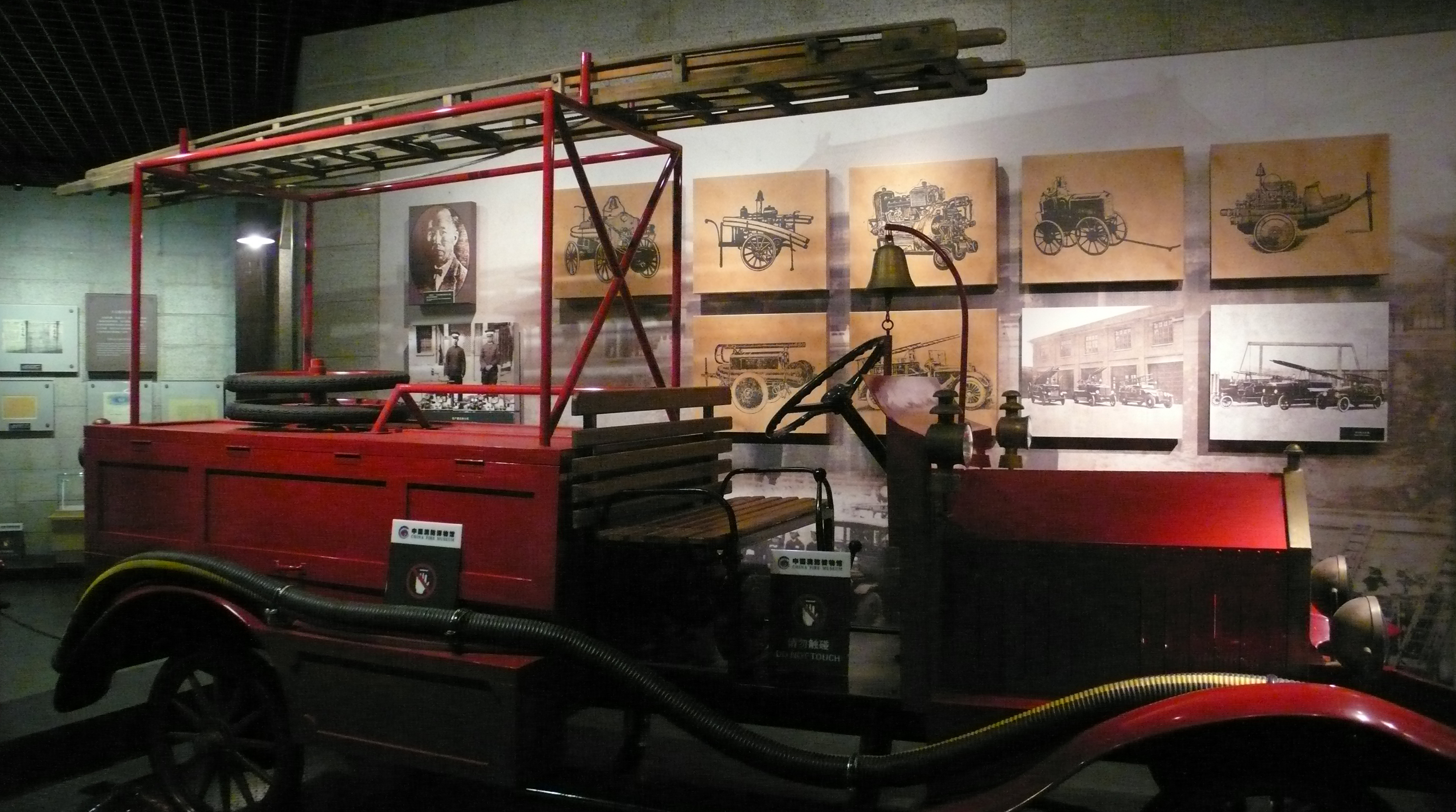 China's first fire engine with an internal combustion engine.